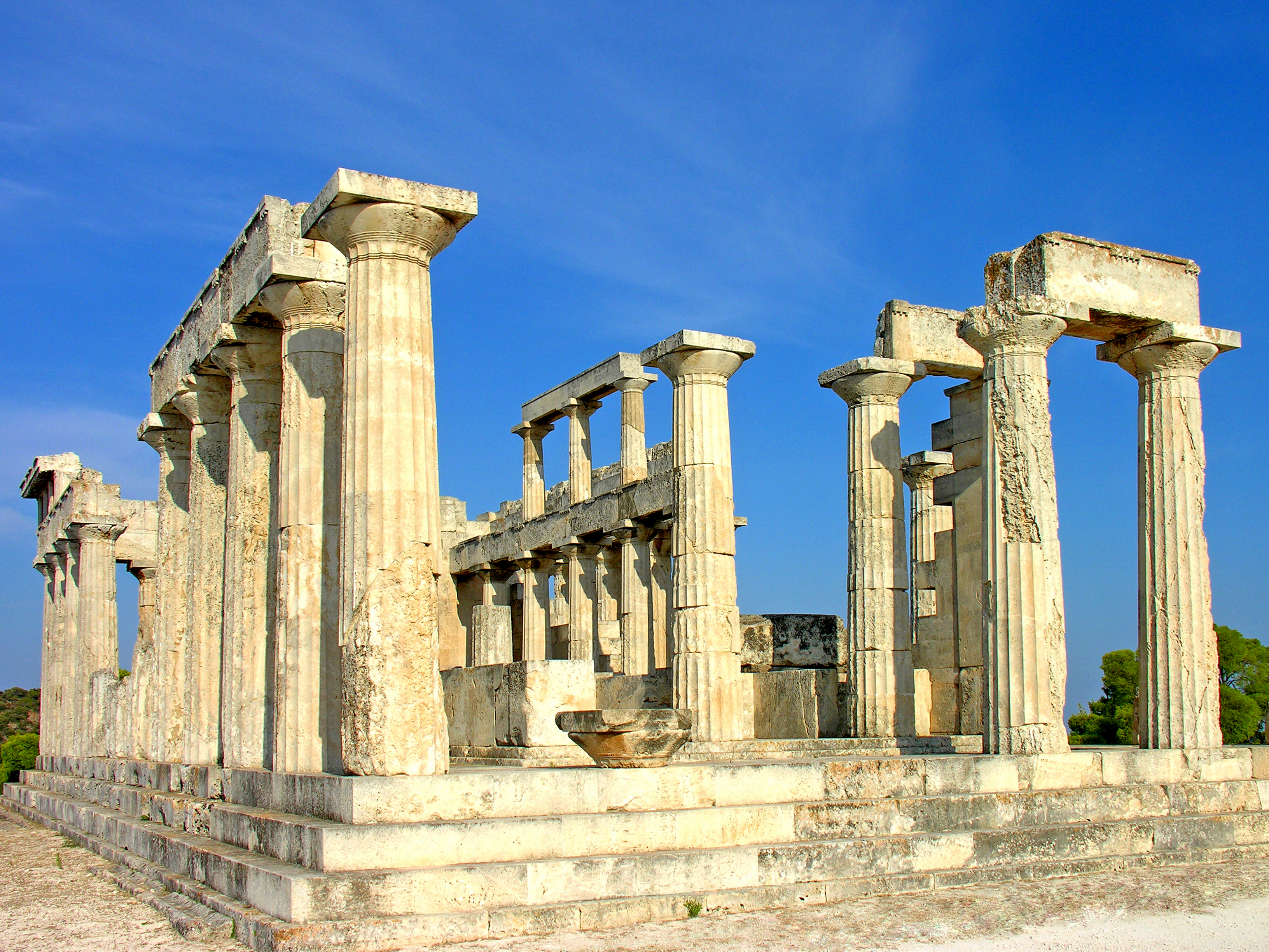 PLEASE, no multi invitations, glitters or self promotion in your comments. My photos are FREE for anyone to use, just give me credit and it would be nice if you let me know, thanks - NONE OF MY PICTURES ARE HDR. Temple of Aphaia then Athena, Aegina, Greece The temple is one of the most beautiful classical temples in Greece and also the oldest surviving. The first temple on the site (700 BC) was dedicated to Afaia, a deity from Crete. The Doric temple we see today, was built about 490 BC and dedicated to Athena, whose cult had merged with that of Afaia. The temple is built of local stone, and it served as a model for the Partenon and other temples in Greece, Asia and southern Italy.